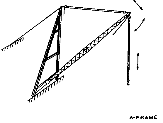 "A-frame derrick" means a derrick in which the boom is hinged from a cross member between the bottom ends of two upright members spread apart at the lower ends and joined at the top; the boom point secured to the junction of the side members, and the side members are braced or guyed from this junction point.